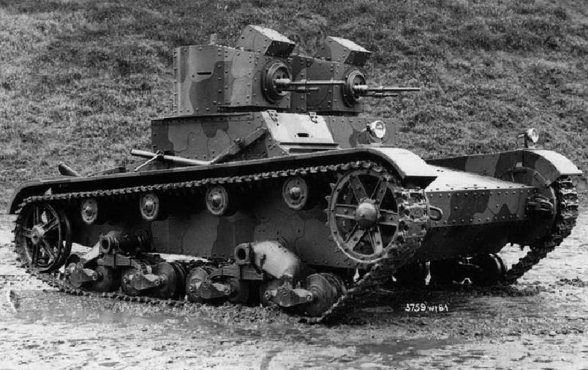 Polish Vickers Mark E (Type A) tank in early thirties.